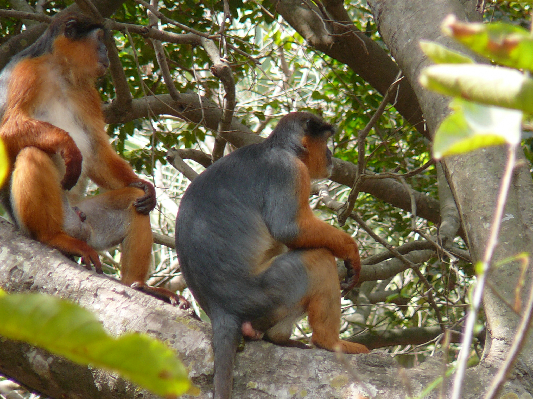 Temminck's red colobus